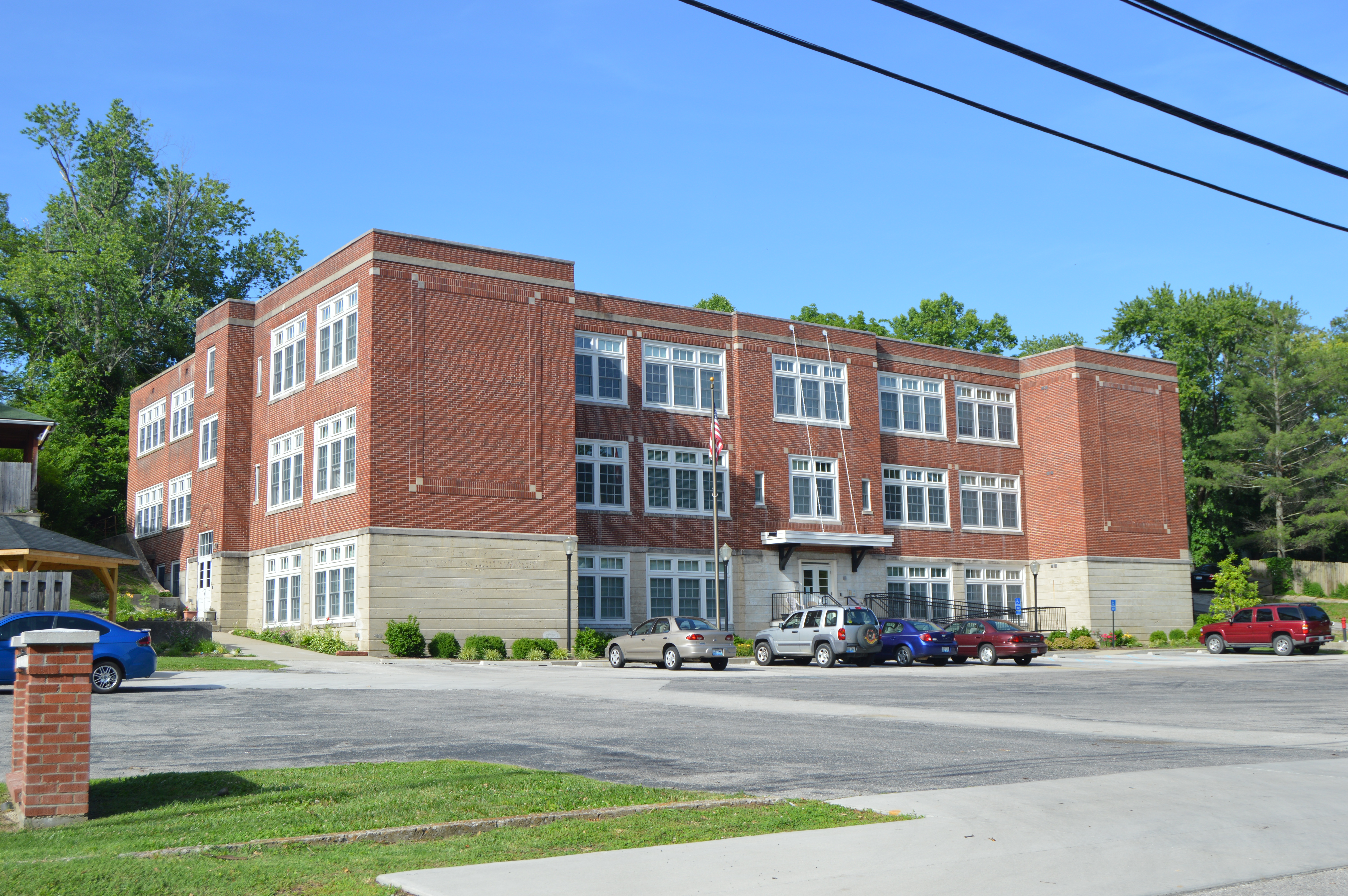 Distant view of the Beattyville Grade School, located at 58 E. Center Street in Beattyville, Kentucky, United States. Built in 1926, it was home to Kentucky's first public radio station (WBKY, now WUKY) before closing in 1969. Since converted into apartments, it is listed on the National Register of Historic Places.